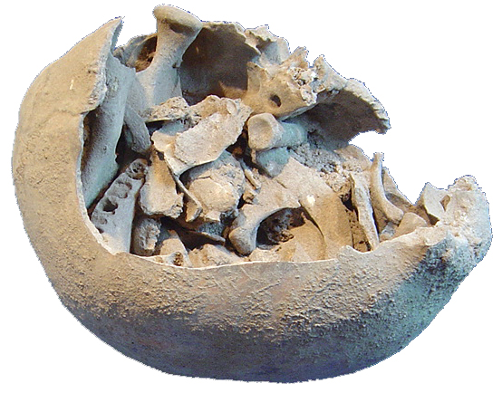 Lapa do Santo - Sepultamento 17. Foto do crânio em laboratório antes do início da cura. A calota estava preenchida por ossos do próprio crânio, epífises de ossos longos amputados, escápula e ossos de mão.